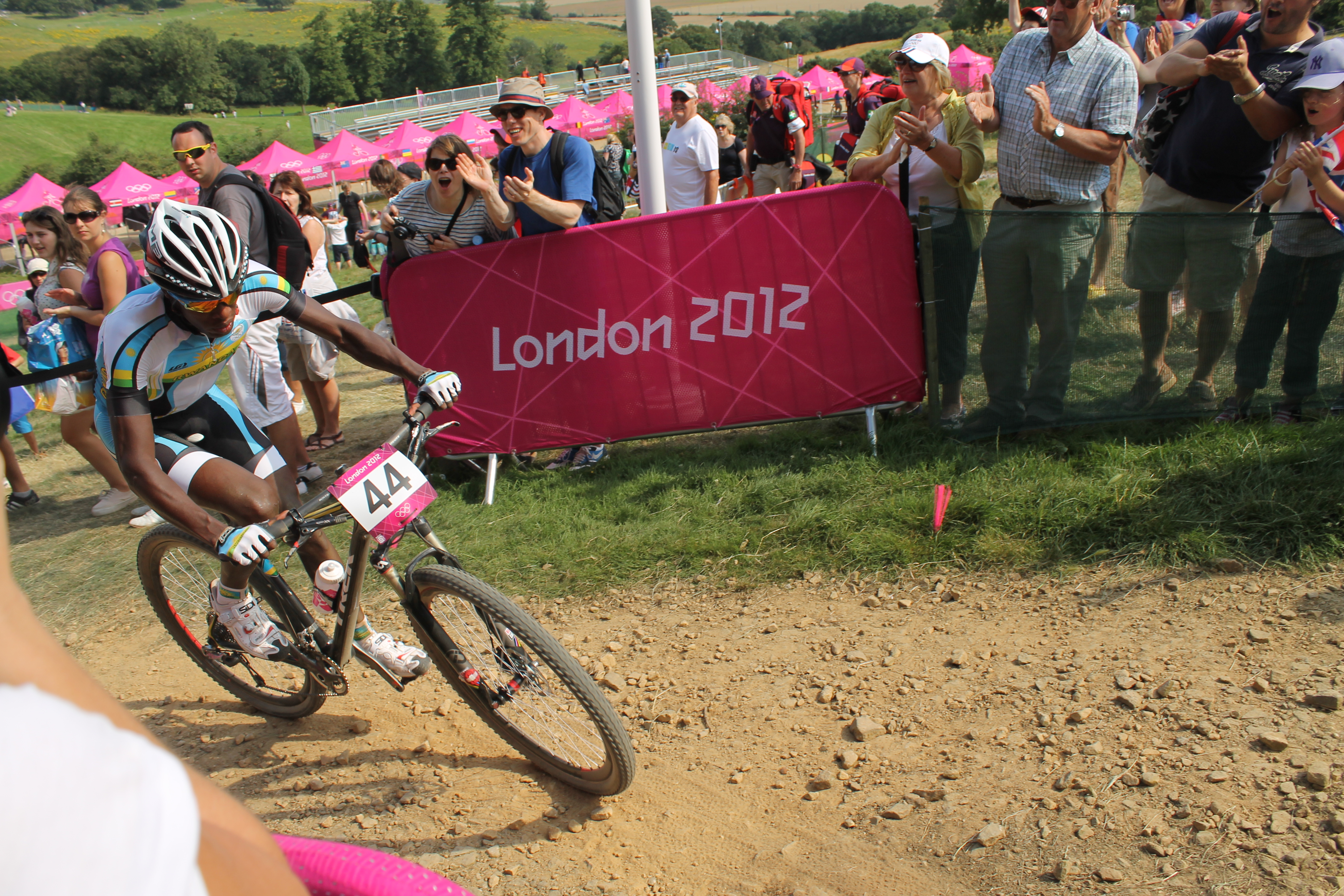 Cycling at the 2012 Summer Olympics – Men's cross-country Adrien Niyonshuti (44) (RWA) IMG_4373